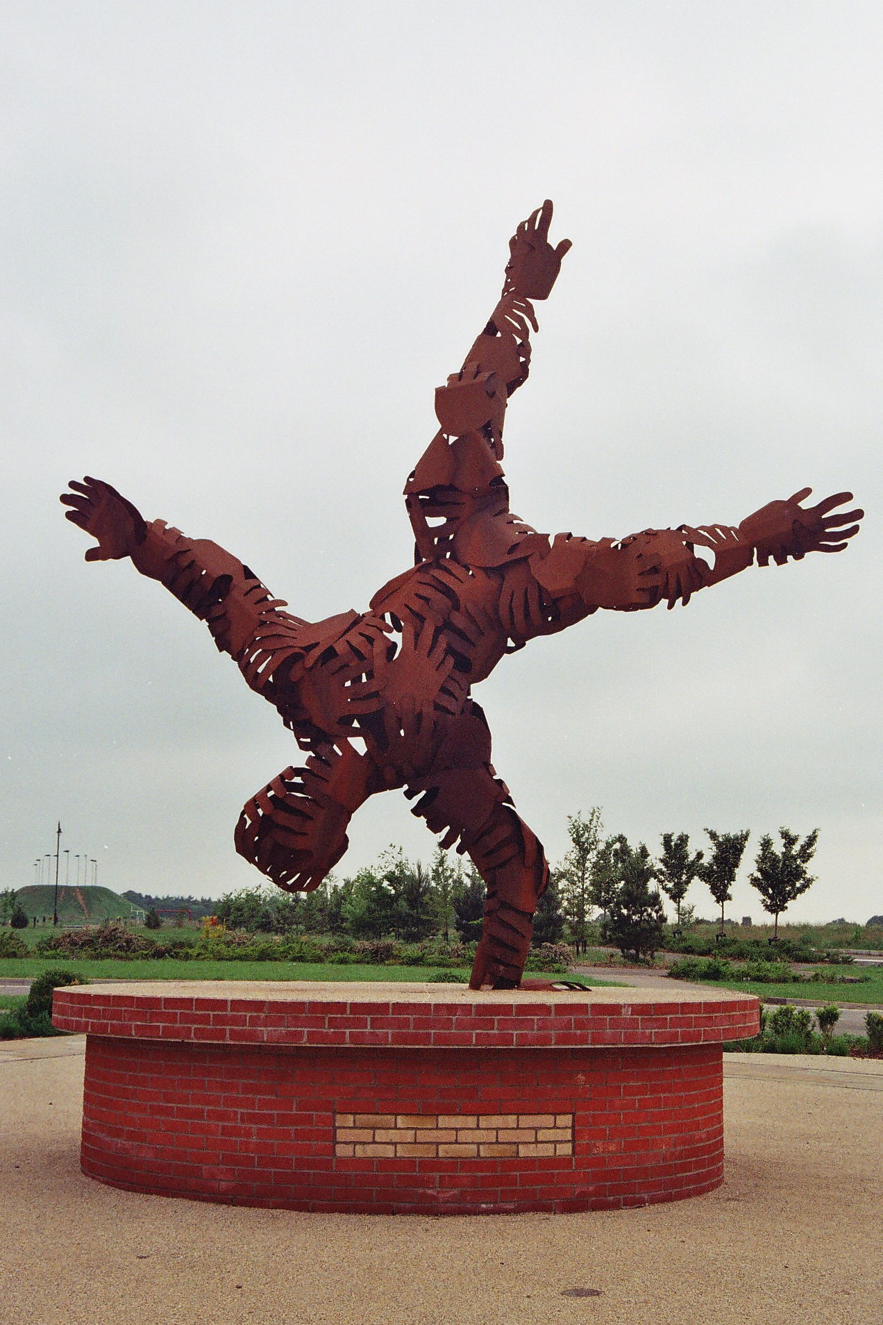 Matthew Riches